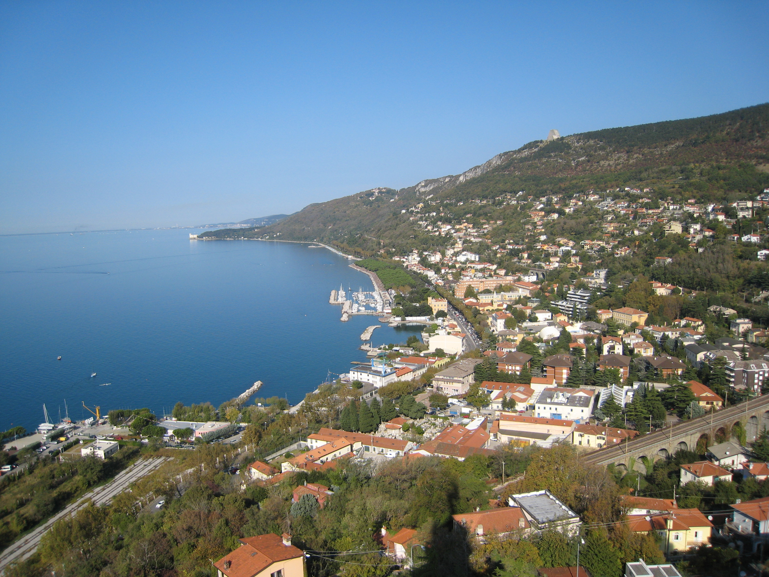 Trieste - view from the Vittoria Lighthouse. 19-10-2008